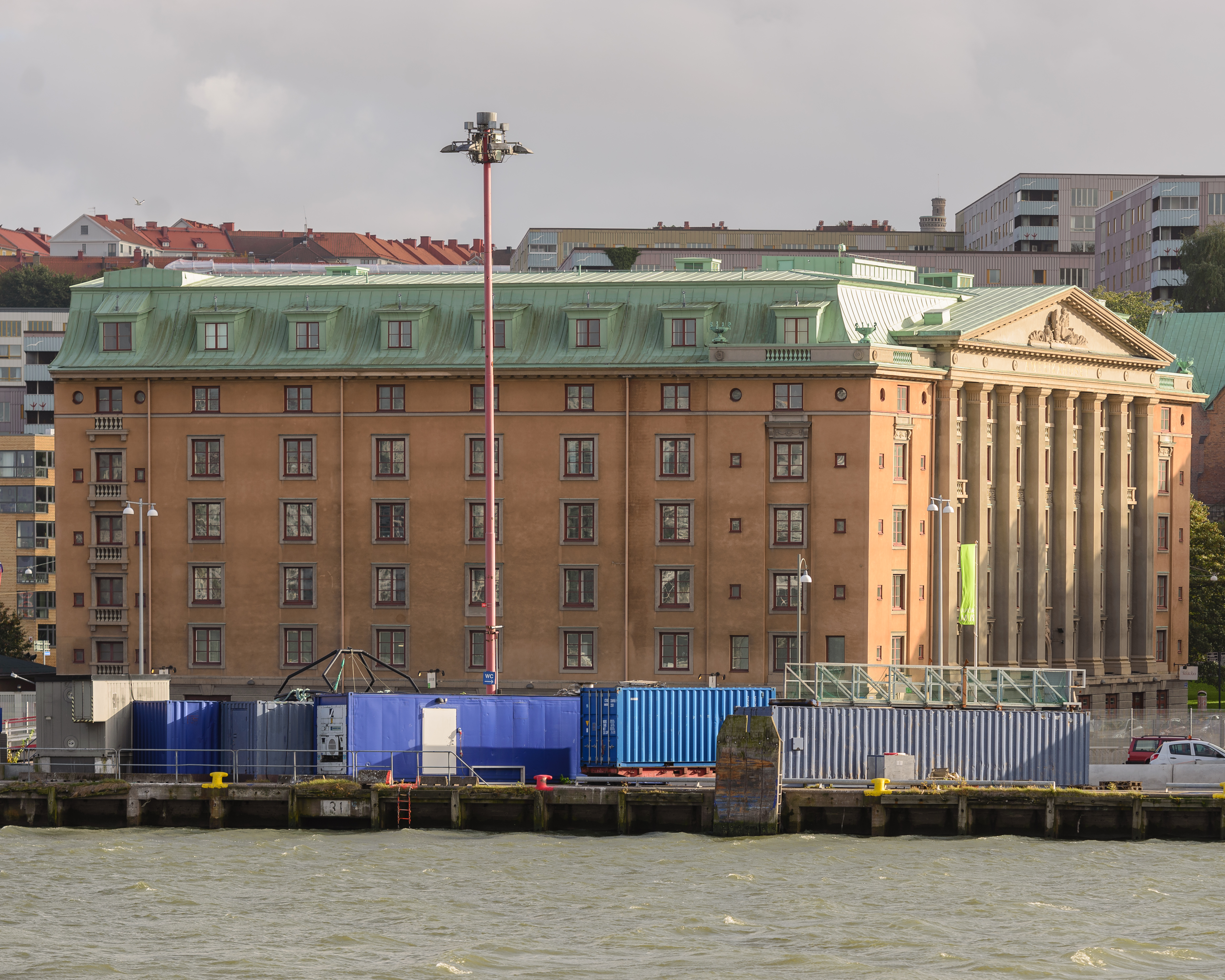 Amerikahuset (the Amerika building) seen from Göta älv (river). Former HQ of Swedish American Line. Gothenburg, Sweden